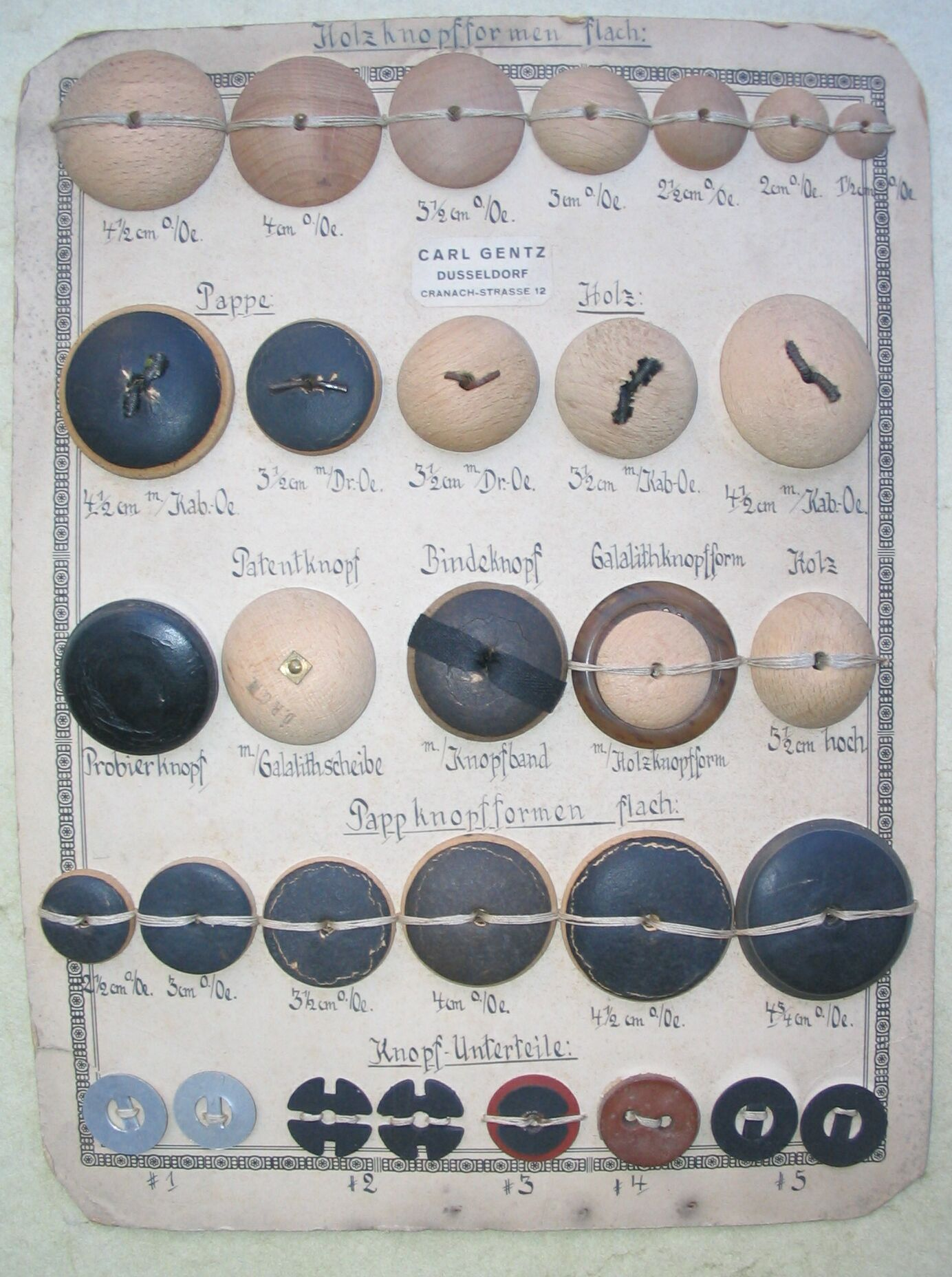 Furrier: Buttons for furs (Germany).